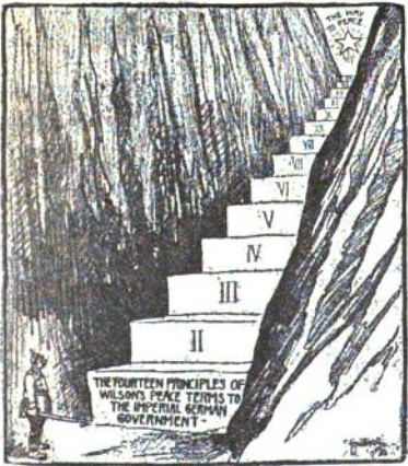 Political cartoon -- The Fourteen Principles of Wilson's peace to German government. Caption: "It's the only way out, Wilhelm!",1918.